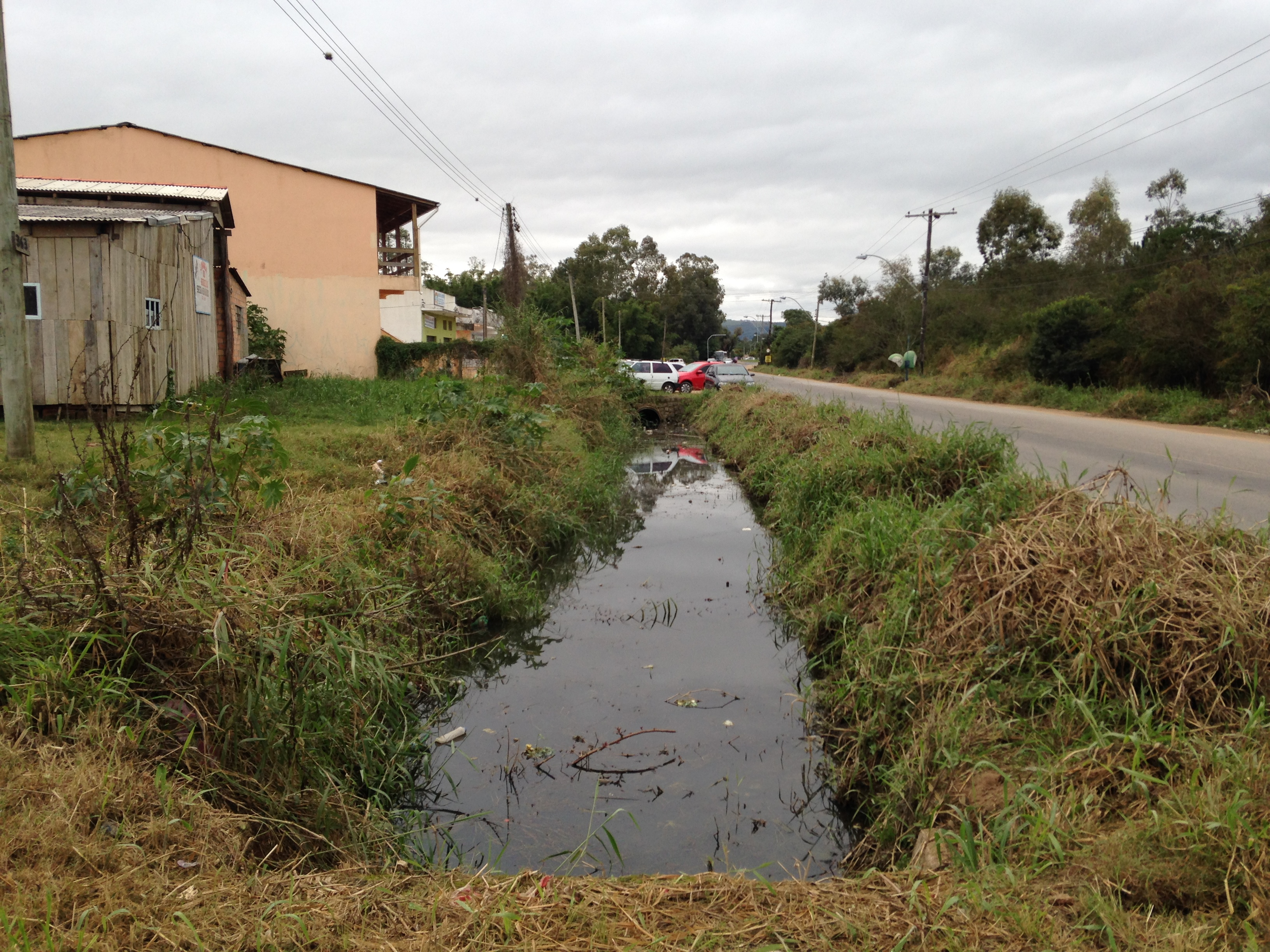 Ditch carrying off sewage in Ponta Grossa, Porto Alegre - Brazil.